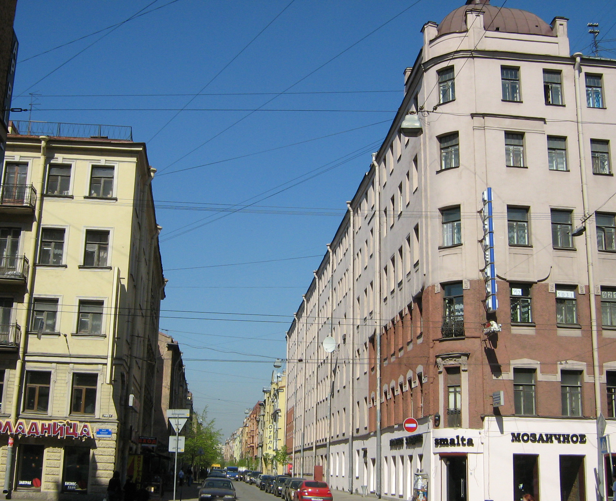 Gatchinskaya street, view from the Bolshoy avenue (Petrograd side, Saint-Petersburg, Russia). To the right is bldg. num. 1/56, reconstructed by architects Otton Ignatovich in 1899, Iliya Kaliberda in 1904, and Iosif Dolginov in 1911.